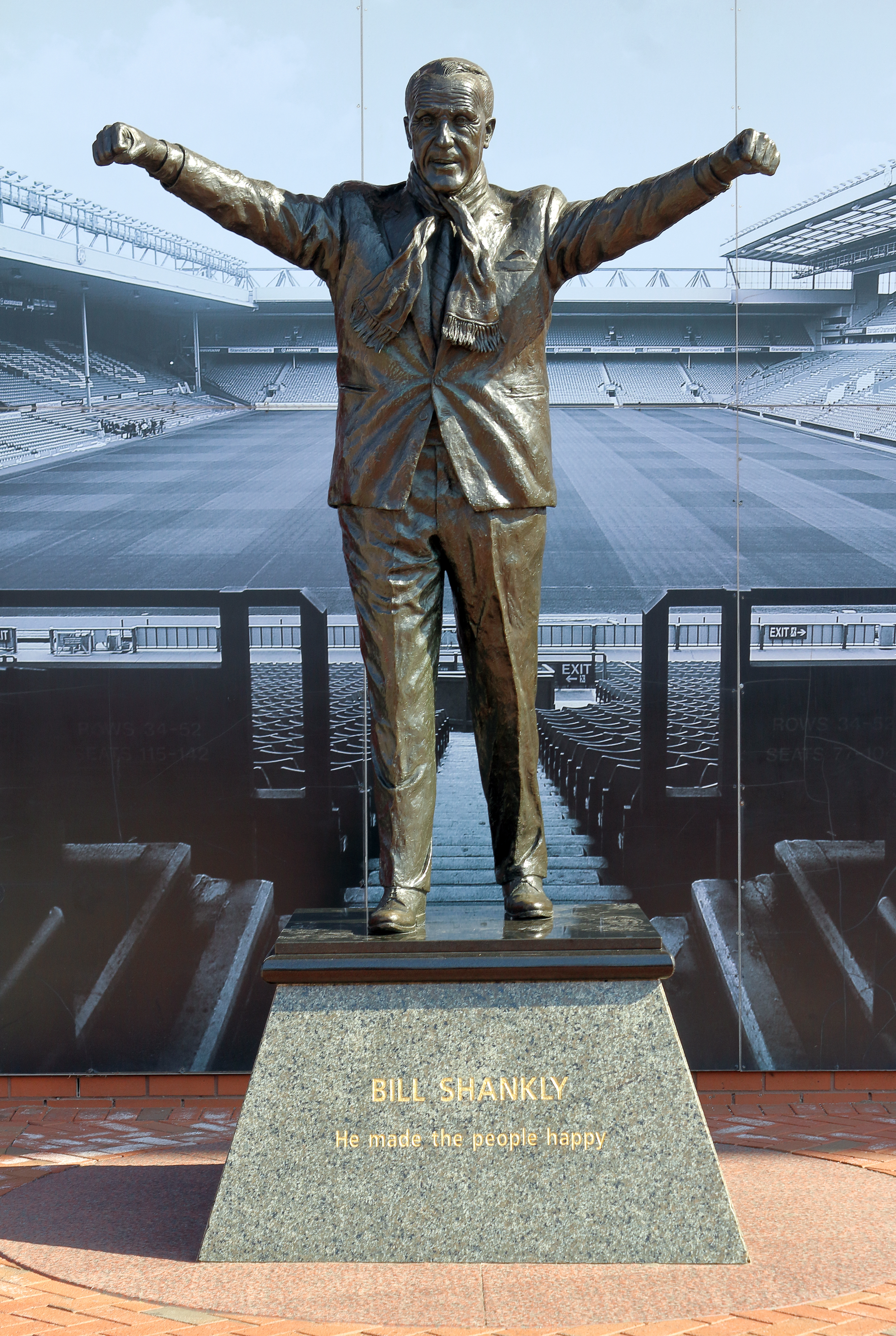 Statue of Bill Shankly at the front of Anfield stadium.Depicted person: Bill Shankly – Scottish footballer and manager